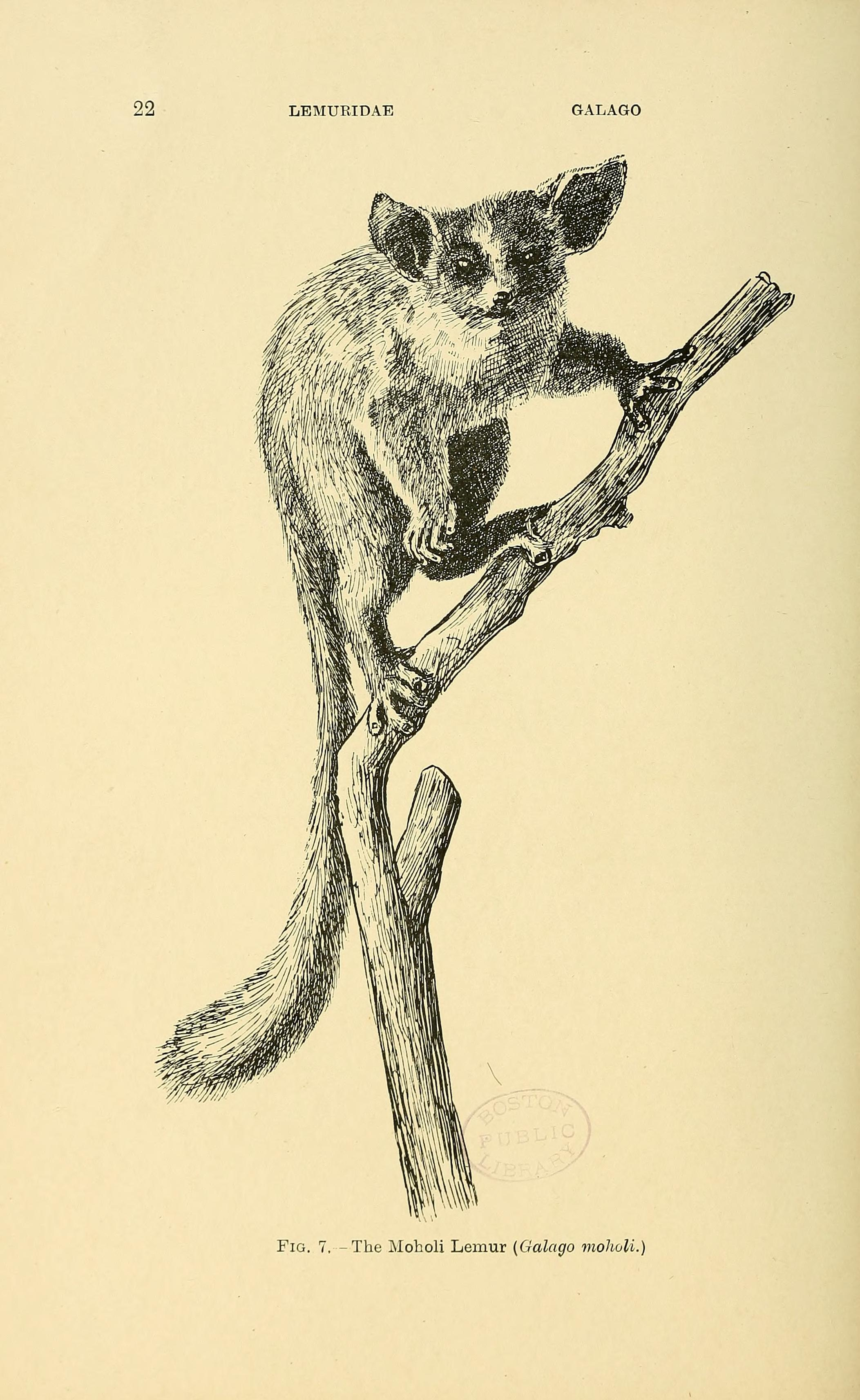 The mammals of South Africa / by W.L. Sclater ...